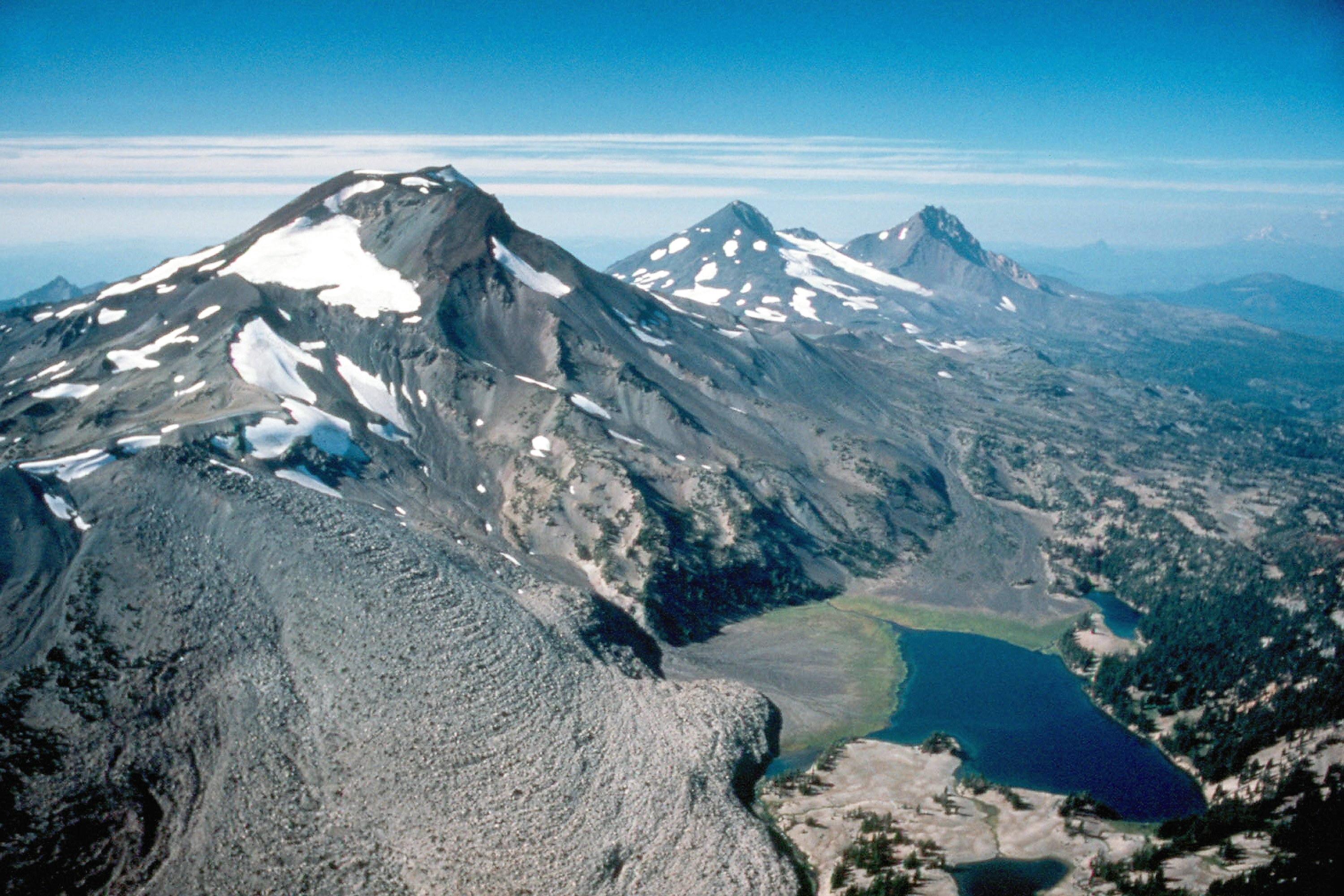 Aerial view of the Three Sisters volcanoes in Oregon, from the southeast looking north. Left to right: South Sister, Middle Sister, and North Sister. In the left foreground is the 'Newberry' flow of rhyolite lava, which is 2200 years old, one of the most recently erupted units.